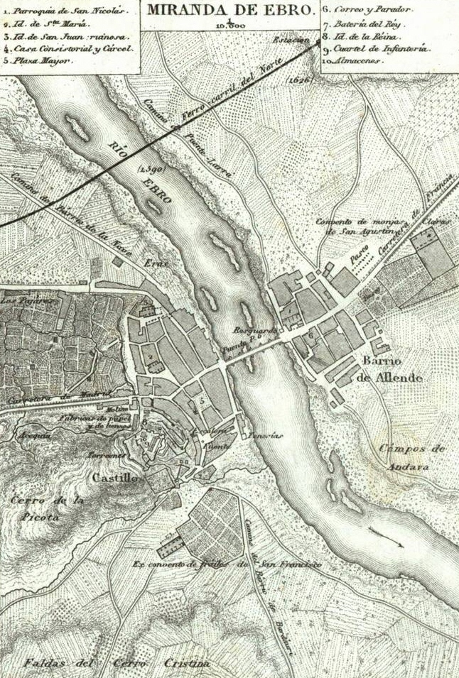 Map of Miranda de Ebro cropped from the 1868 province of Burgos map by Francisco Coello